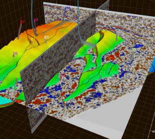 petrel